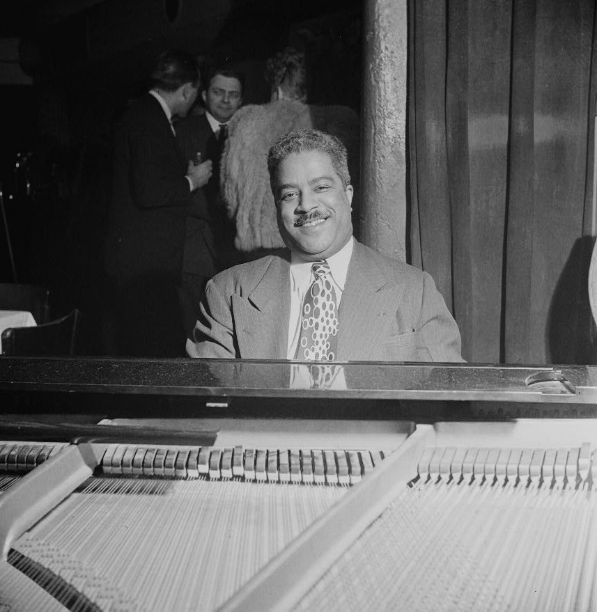 Clifton Luther "Cliff" Jackson (1902-1970), American jazz pianist, probably playing at Café Society, New York City.